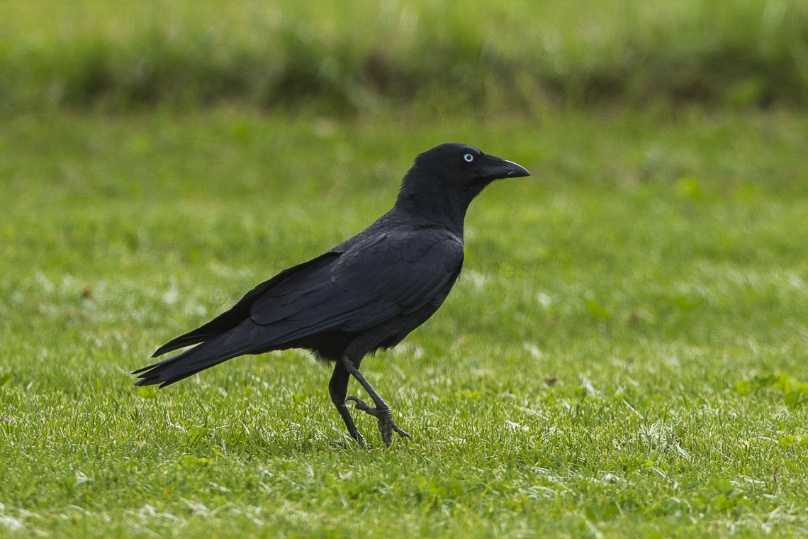 Torresian Crow - Lamington NP - Queensland_S4E7307